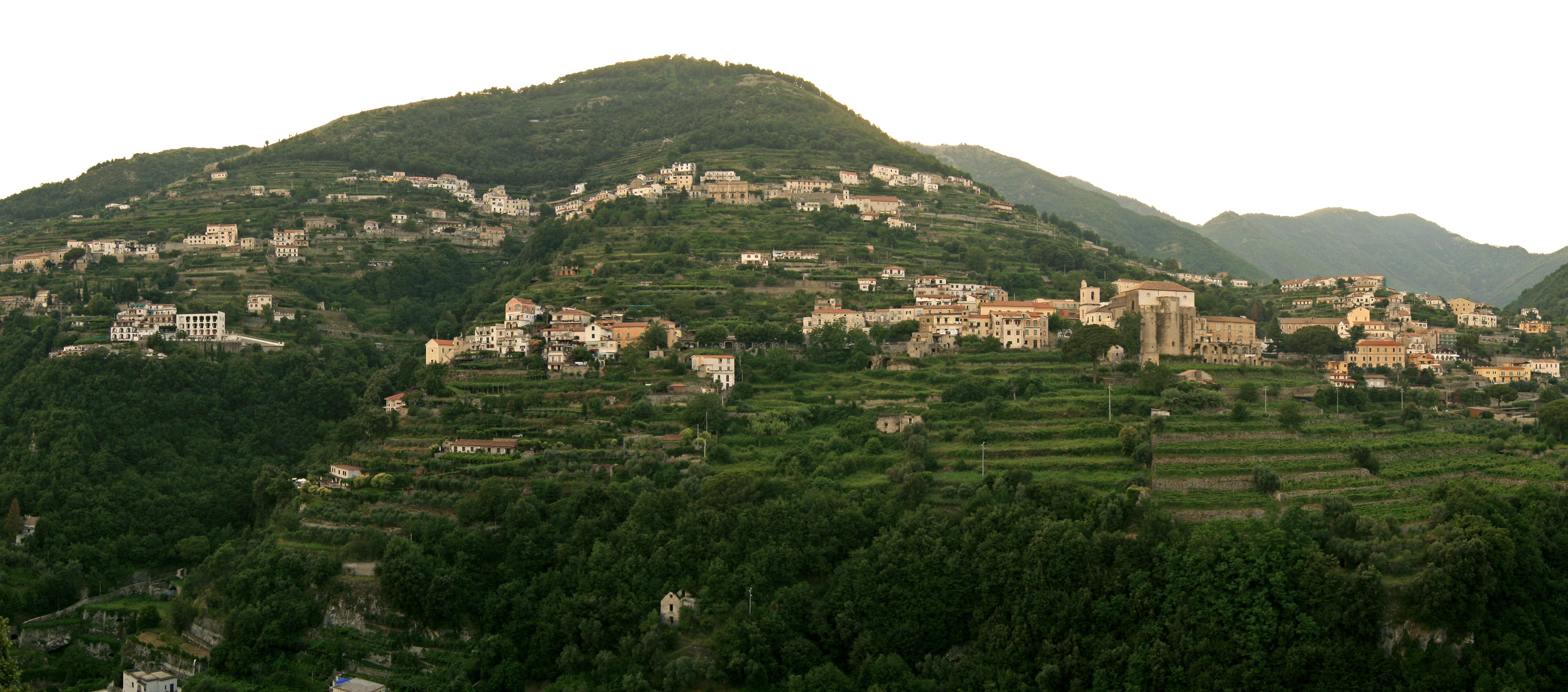 Panorama view of the city of Scala in Campania, Italy.